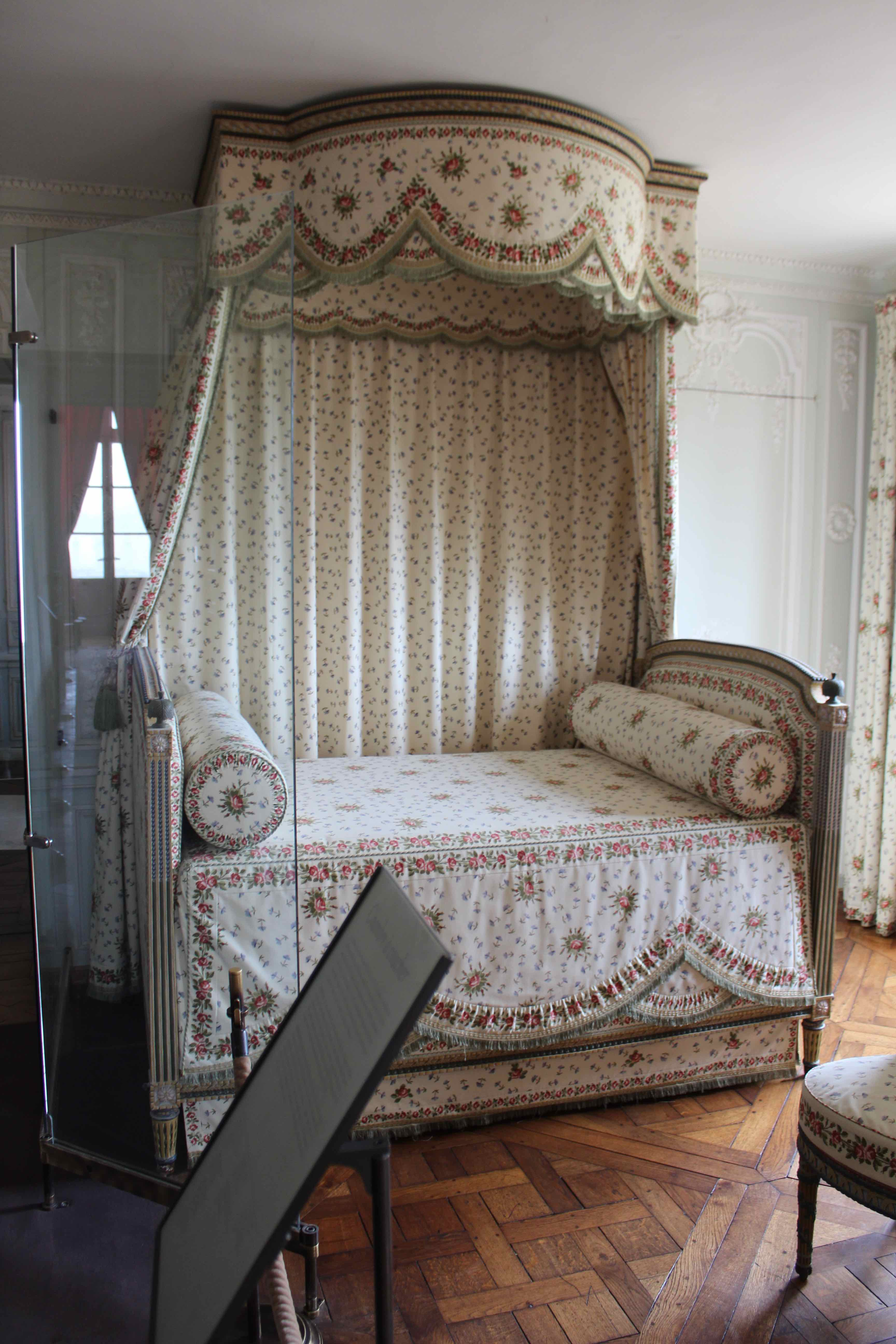 Marie Antoinette's Bed in the Palace of Versailles